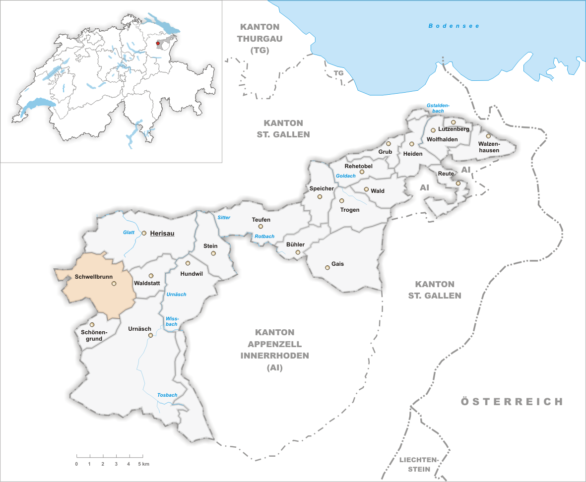 Municipality of Schwellbrunn